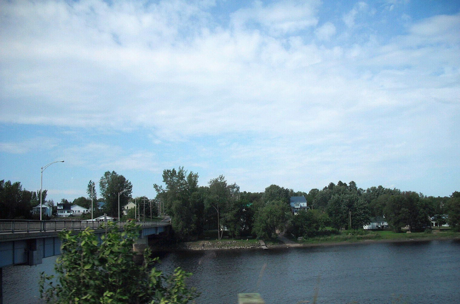 Batiscan river, in Sainte-Geneviève-de-Batiscan (view from East bank).